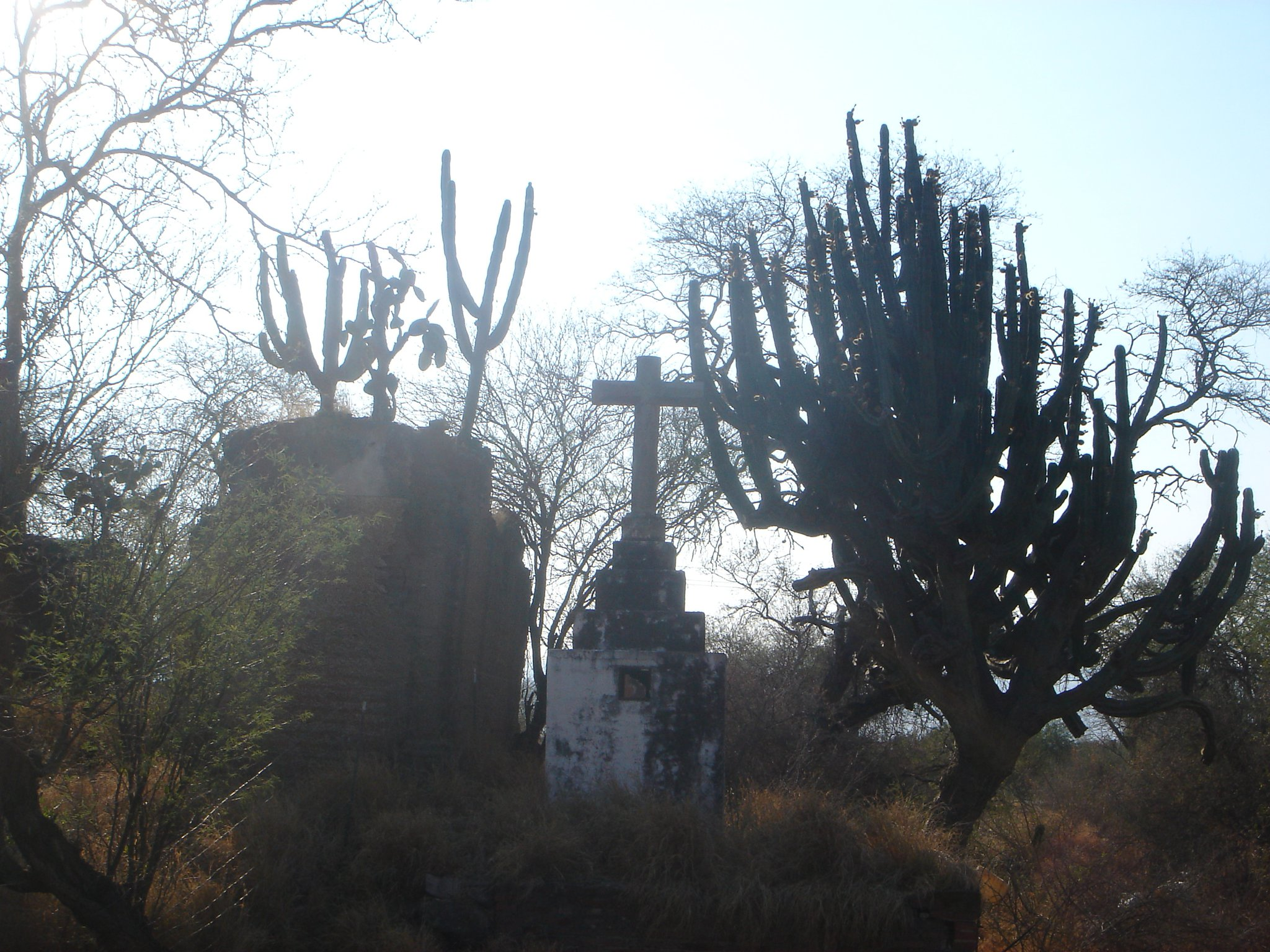 La Cruz Gorda Tiene en su robusta estructura de cantera la historia del tercer convento franciscano que se ubicó en el estado de Jalisco…La Cruz Gorda Esta simple cruz que, como su nombre lo indica, es de grandes proporciones, tiene una mayor importancia de lo que pudiera parecer, ya que aunque no se han encontrado los documentos que así lo acreditan, en Techaluta se fundó el tercer convento franciscano, luego del de Guadalajara y Amacueca; esta cruz, de factura totalmente franciscana es el vestigio que lo comprueba, ya que en los atrios conventuales era un símbolo plantar este tipo de cruces, que distinguían a tal orden religiosa.